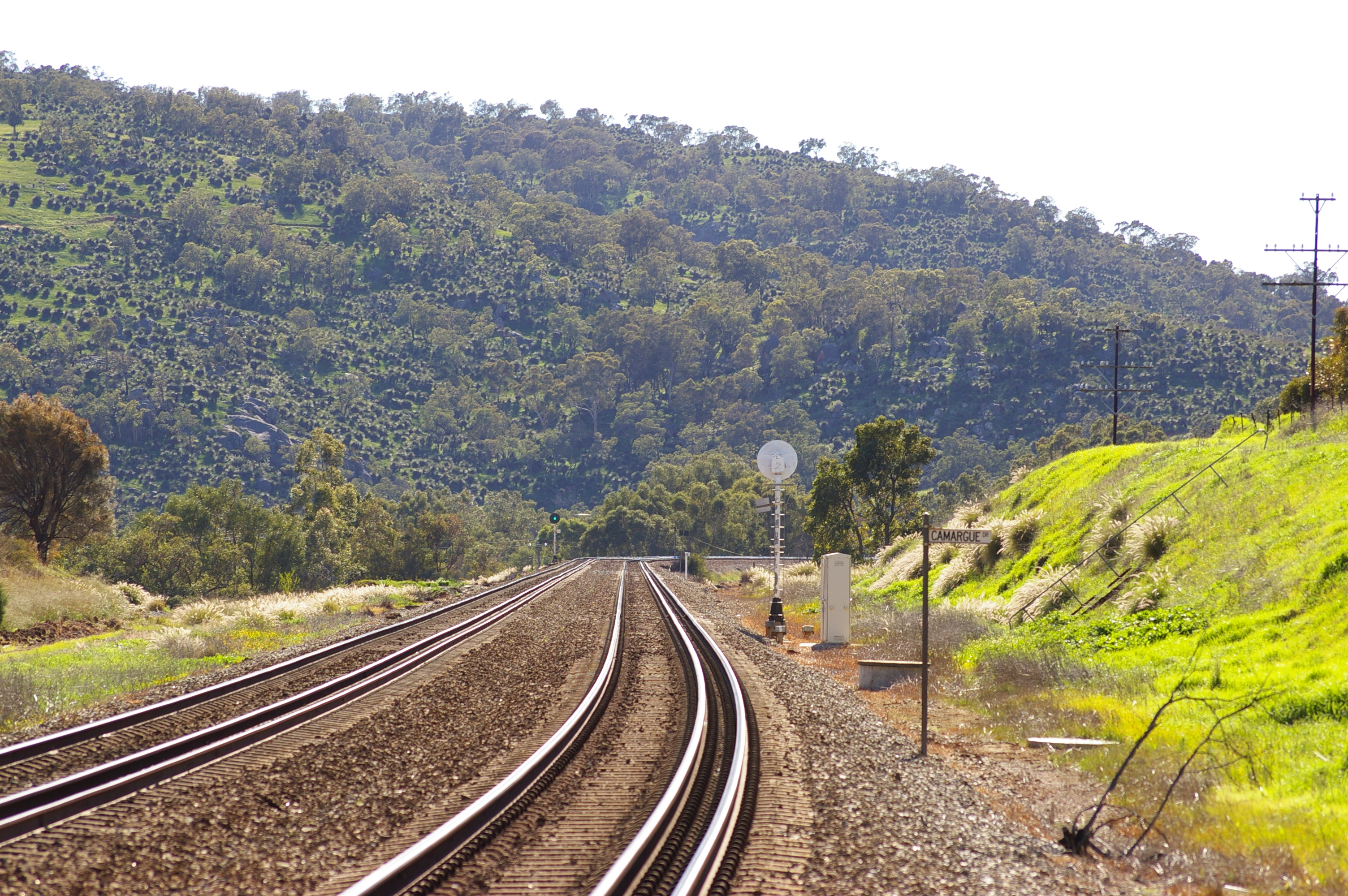 the point where the Eastern Rail line leaves the Swan Coastal plain and follows the Avon river through the Darling Scarp to Toodyay